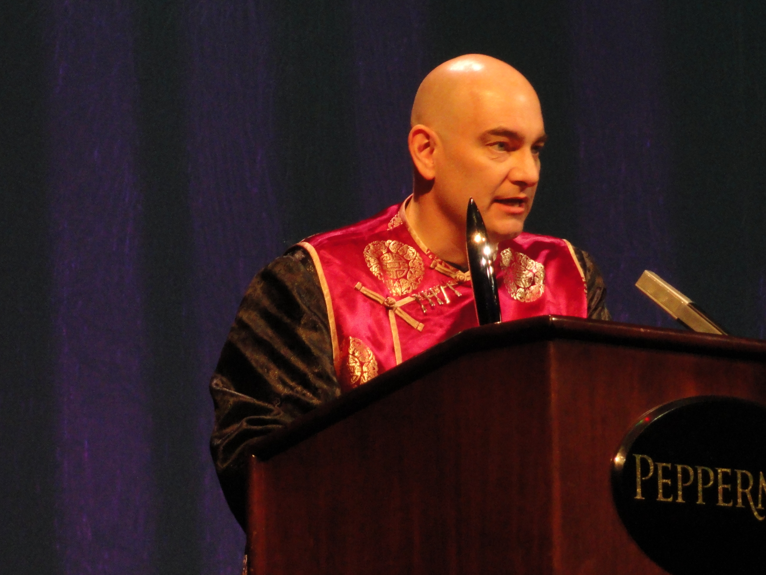 Lou Anders accepting his 2011 Hugo Award as Best Editor, Long Form, at the 69th World Science Fiction Convention.